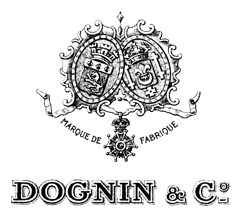 logo of Dognin & Co